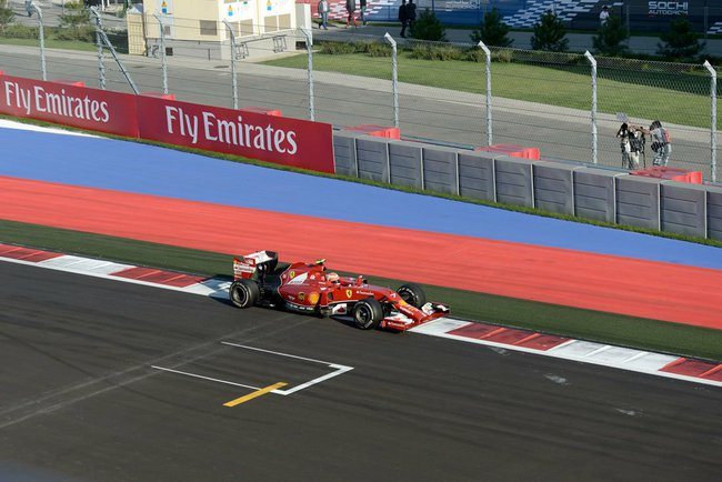 Kimi Raikkonen at 2014 Russian Grand Prix